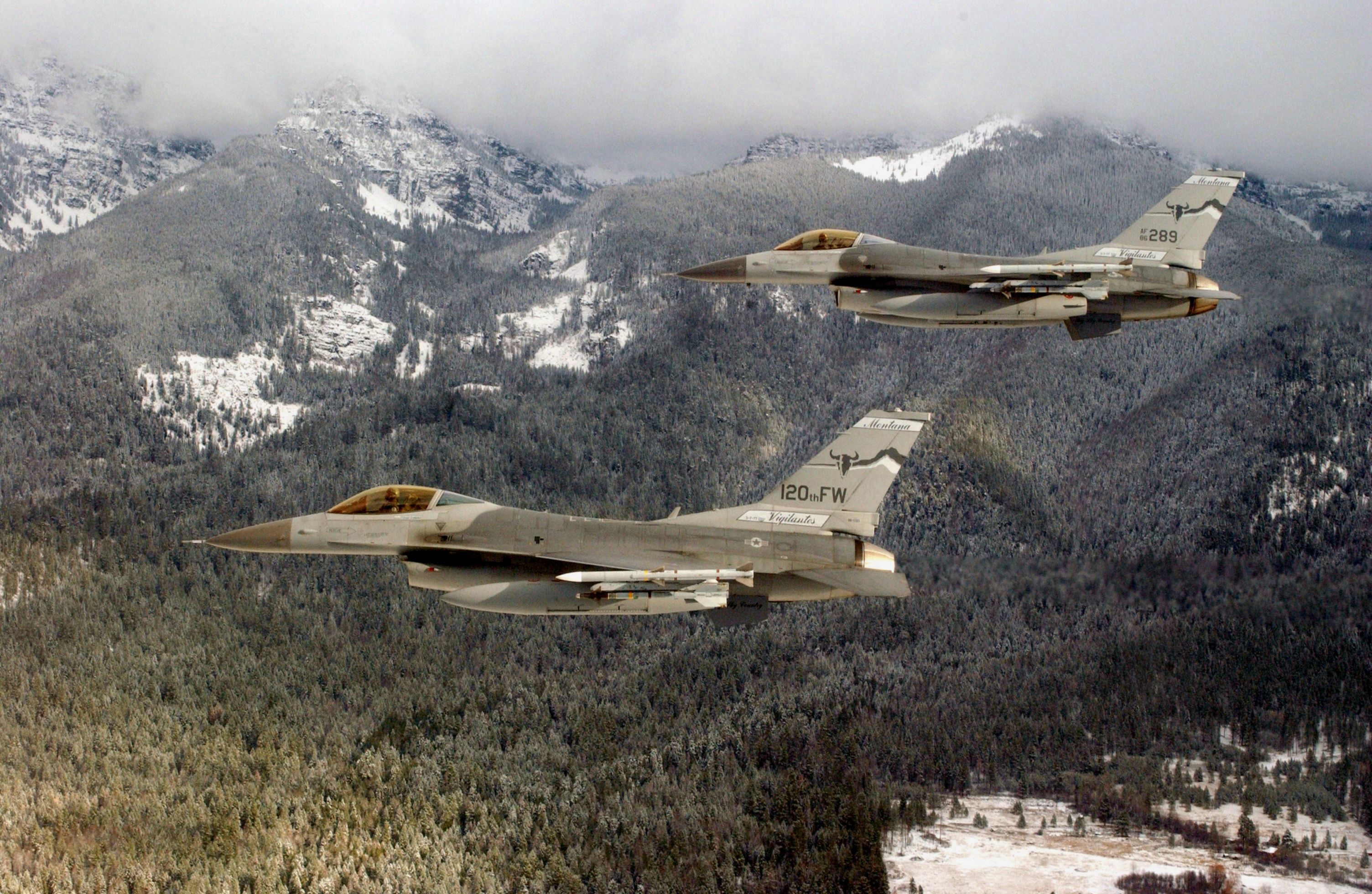 Two U.S. Air Force General Dynamics F-16C Block 30D Fighting Falcon aircraft from the 186th Fighter Squadron Vigilantes, 120th Fighter Wing, Montana Air National Guard, in flight near Nellis Air Force Base, Nevada (USA), on 7 December 2001.